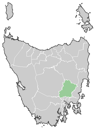 Map of Tasmanian LGA's feat Southern Midlands